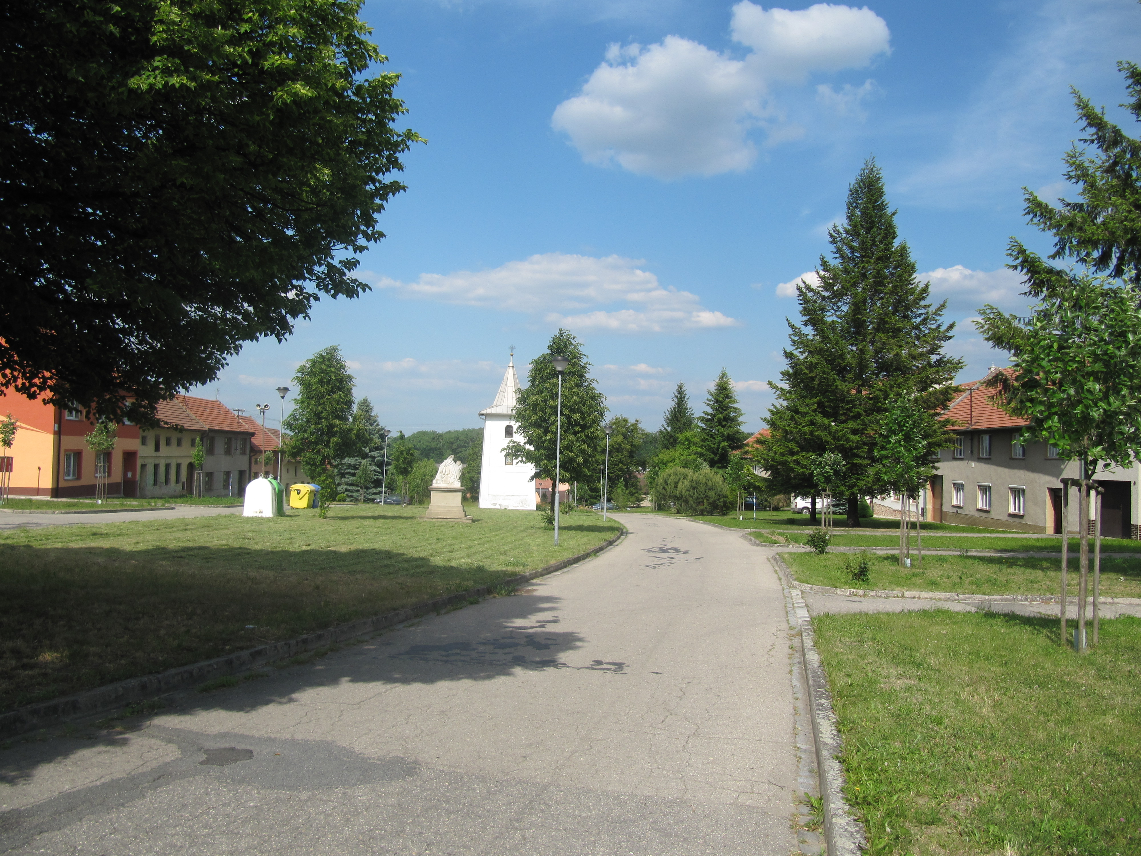 Kroměříž, Czech Republic, part Trávník. Common.